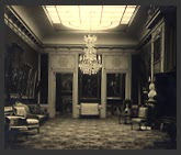 Wildenstein Gallery, Paris ca. 1900